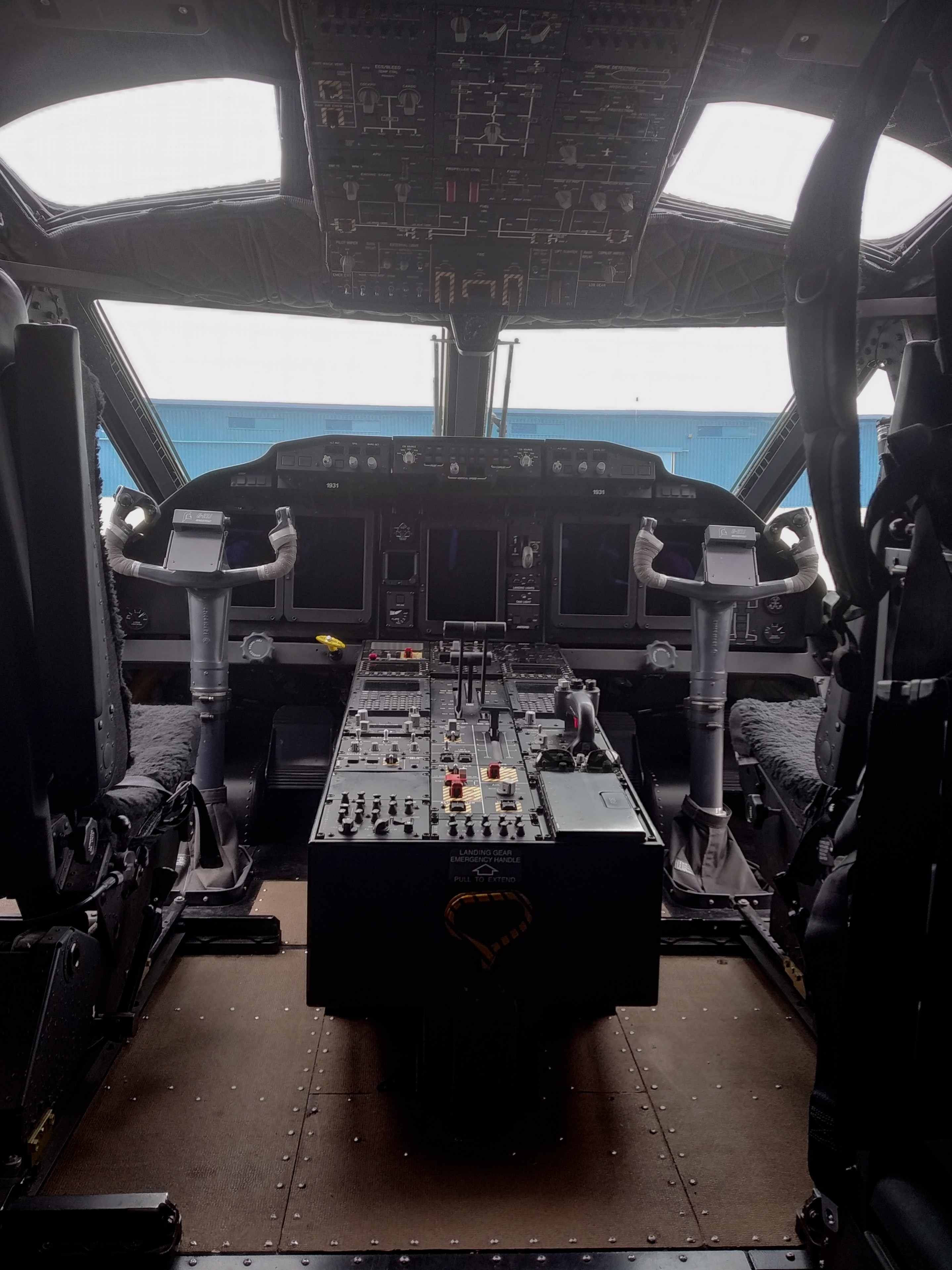 Cockpit C-27J Spartan Slovak Air Force LZMC